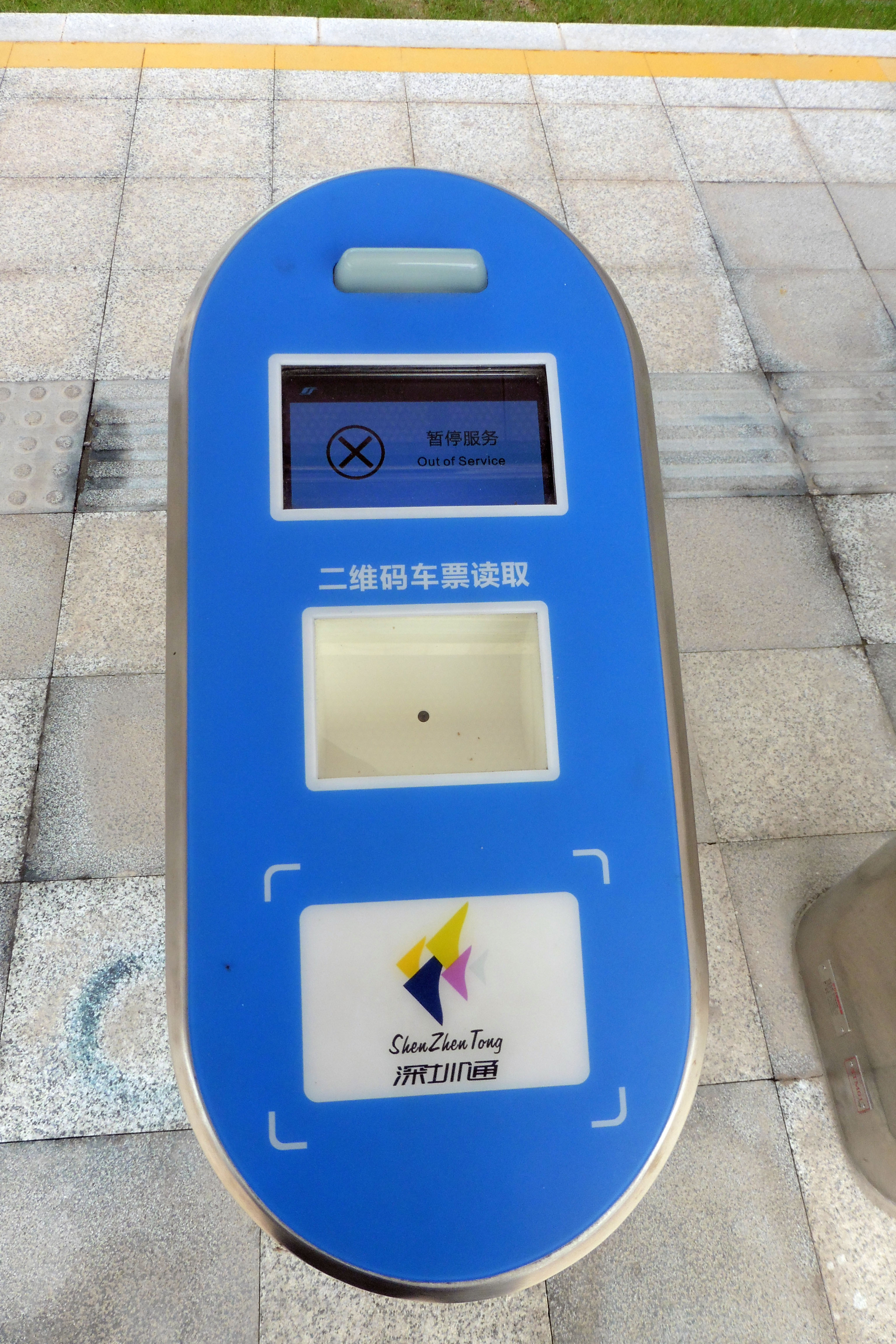 Ticketing Machine of Shenzhen Tram 中文（中国大陆）: 深圳有轨电车检票机